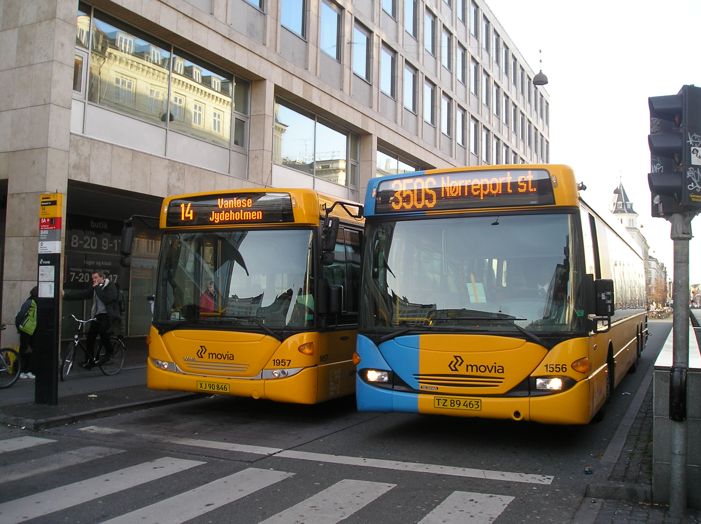 Movia bus line 14 and 350S at Nørreport Station in Copenhagen.